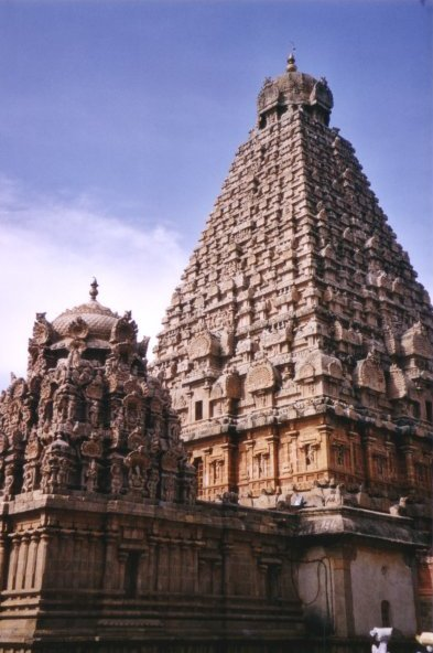 These photos are scans of my own photos and I release all rights to them. - 'Pompous' Parthi talk/contribs 22:53, 3 May 2007 (UTC)